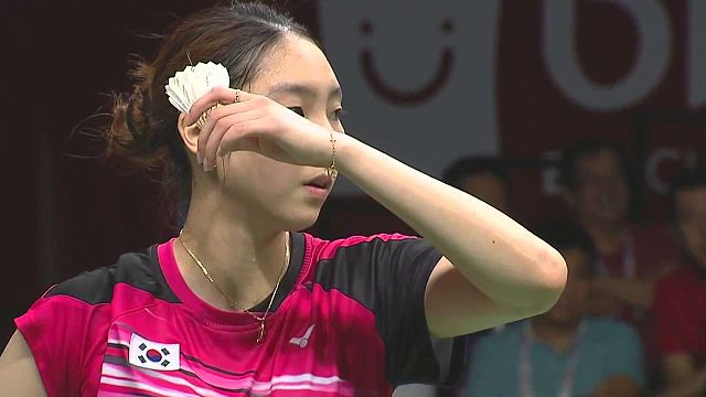 sung jihyun image